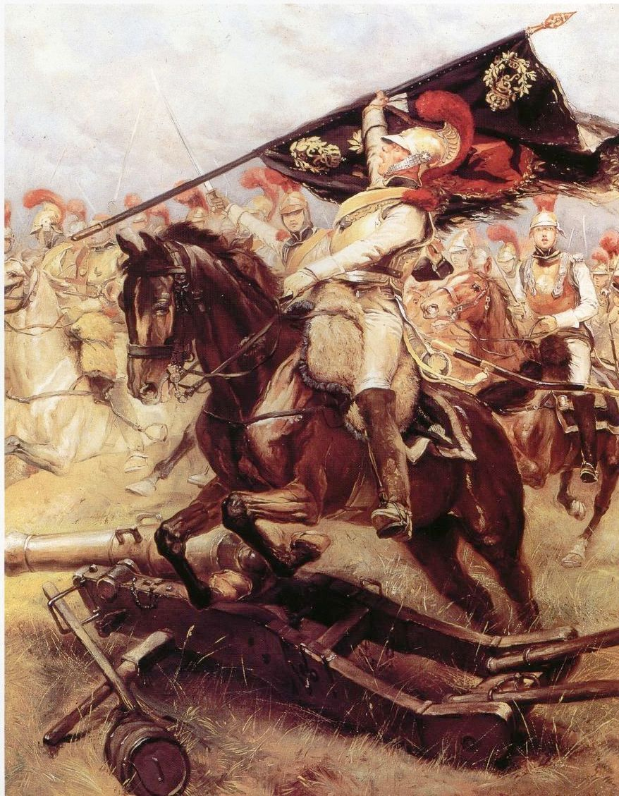 Carabiniers returning after the charge, by Edouard Detaille, 1904